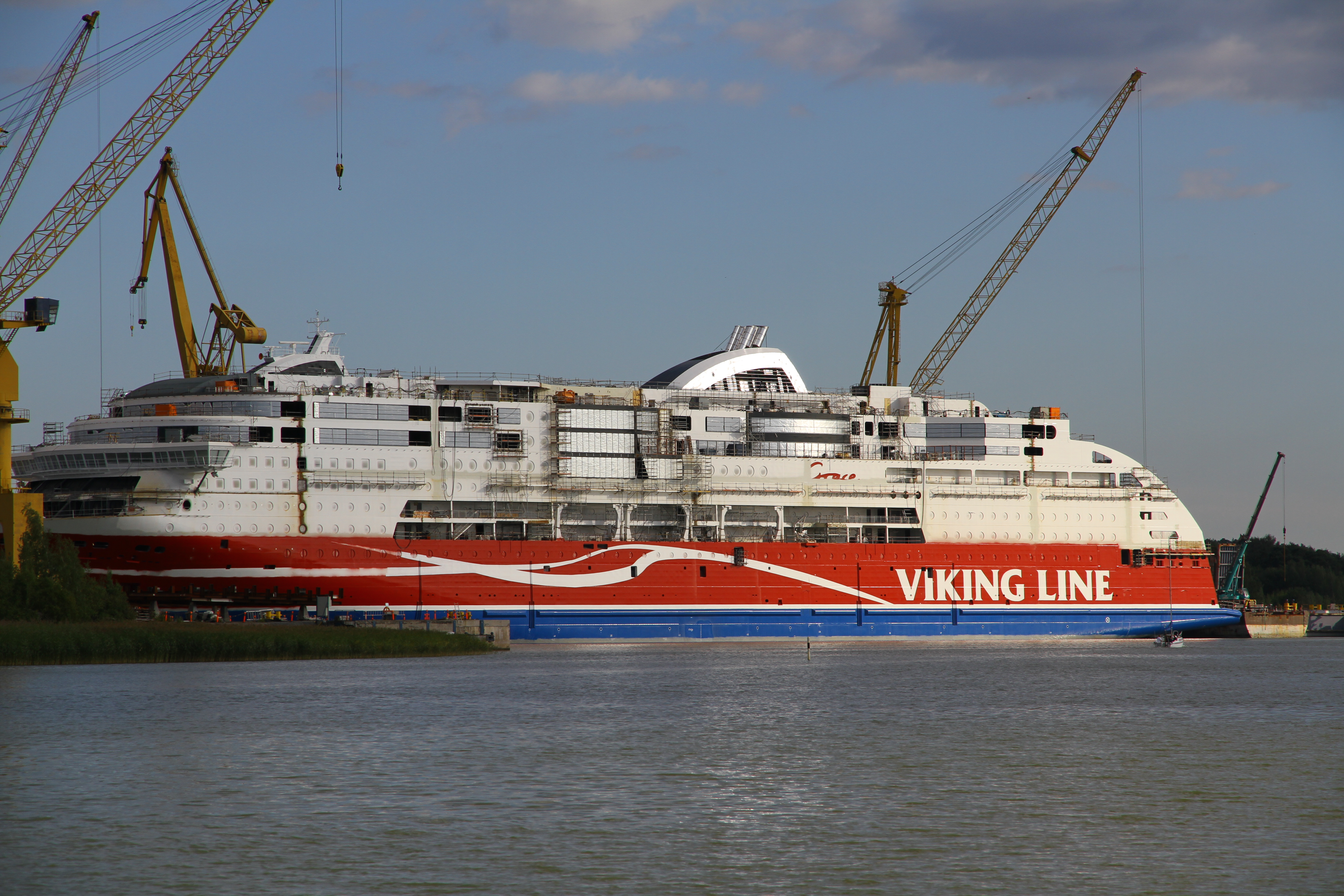 MS Viking Grace under construction at STX Europe, Turku, Finland.